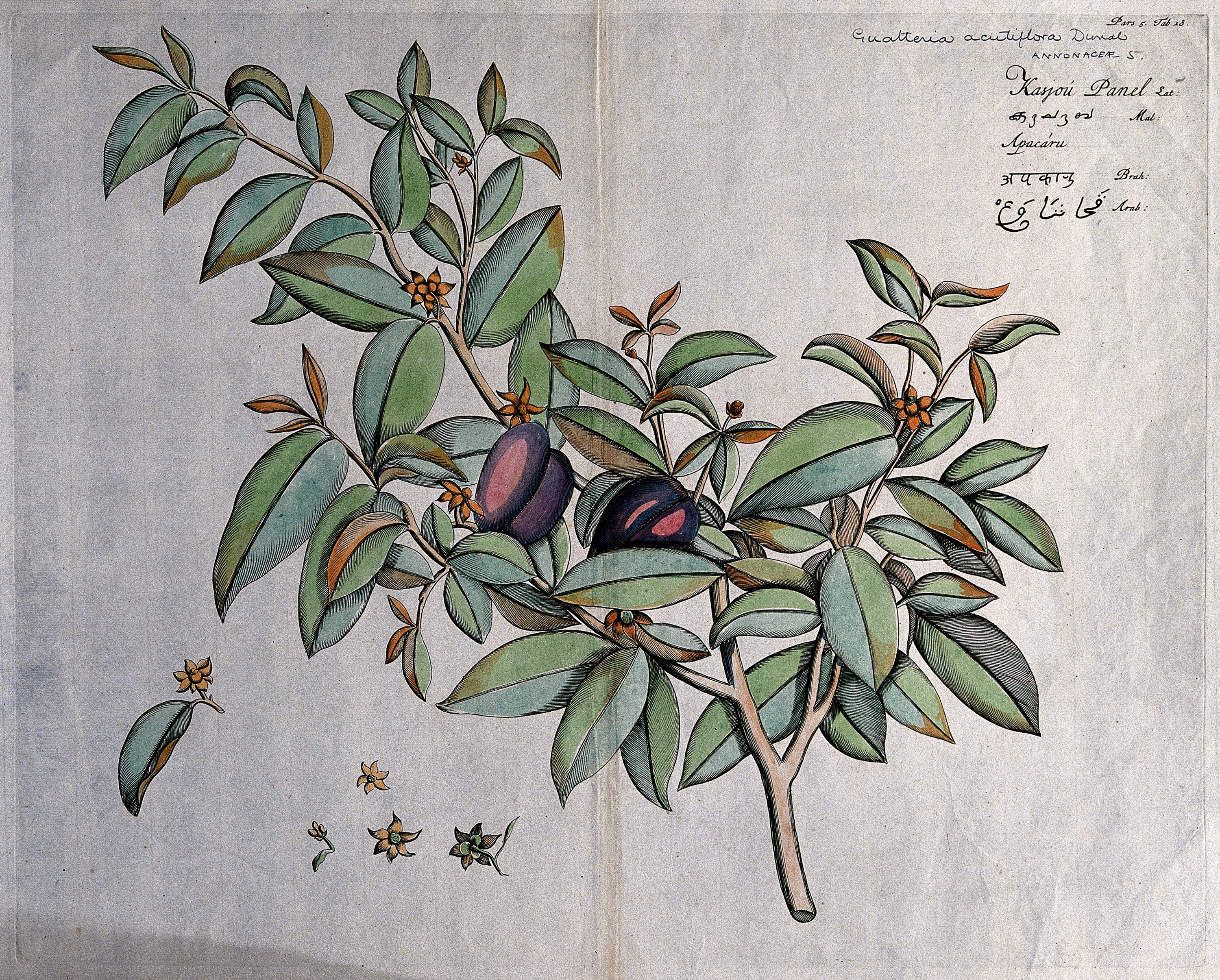 katsjau-panel, Rheede, Hortus Malabaricus, vol. 5:35, tab. 18 Polyalthia korinti: branch with flowers and fruit and separate flowers, some with subtending leaf. Coloured line engraving. Iconographic Collections Keywords: engravings; Annonaceae; botany - pre-linnaean works; Hendrik Adriaan van Reede tot Drakestein; botany - india - malabar coast; scientific illustrations